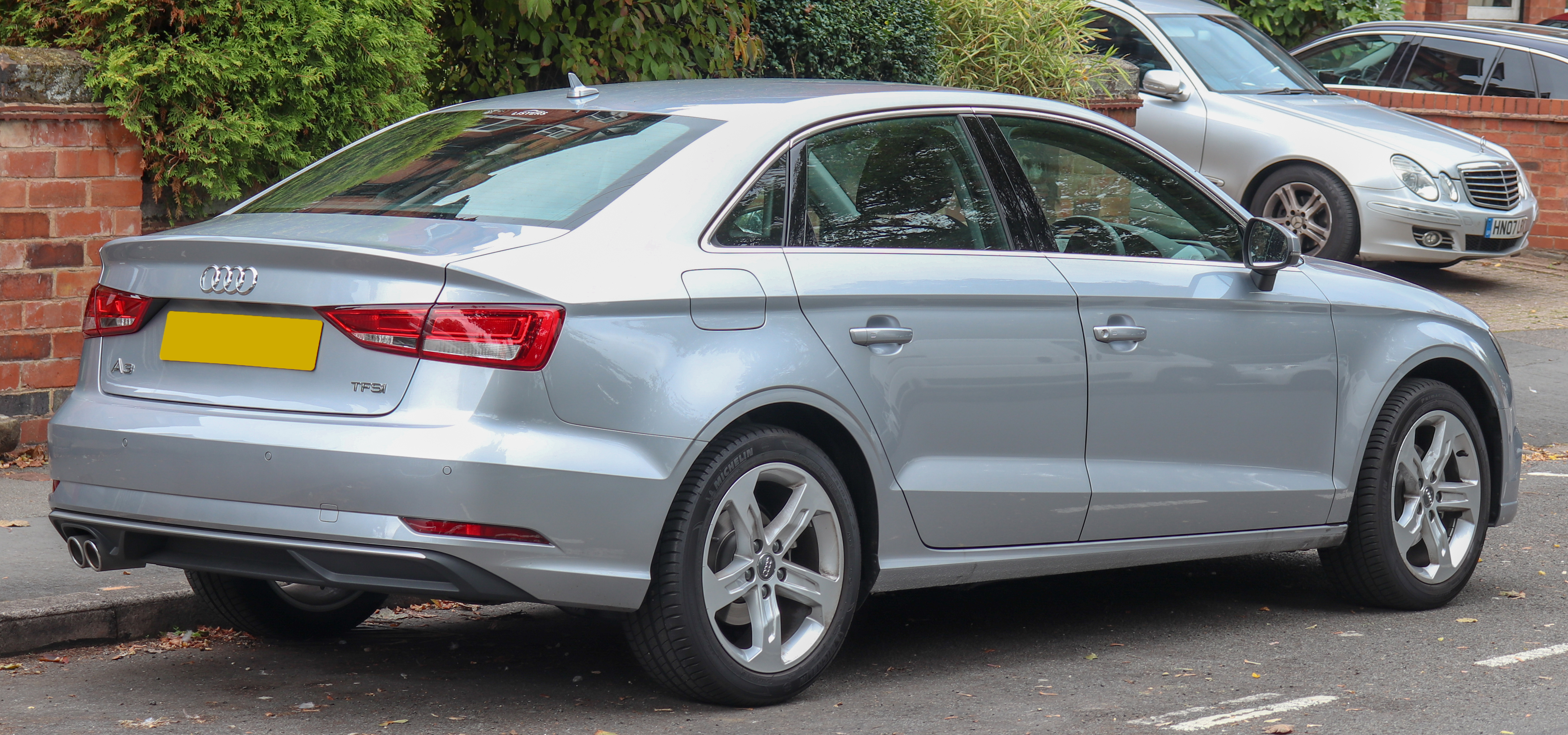 2018 Audi A3 Sport TDi Saloon 1.5 Rear Taken in Leamington Spa